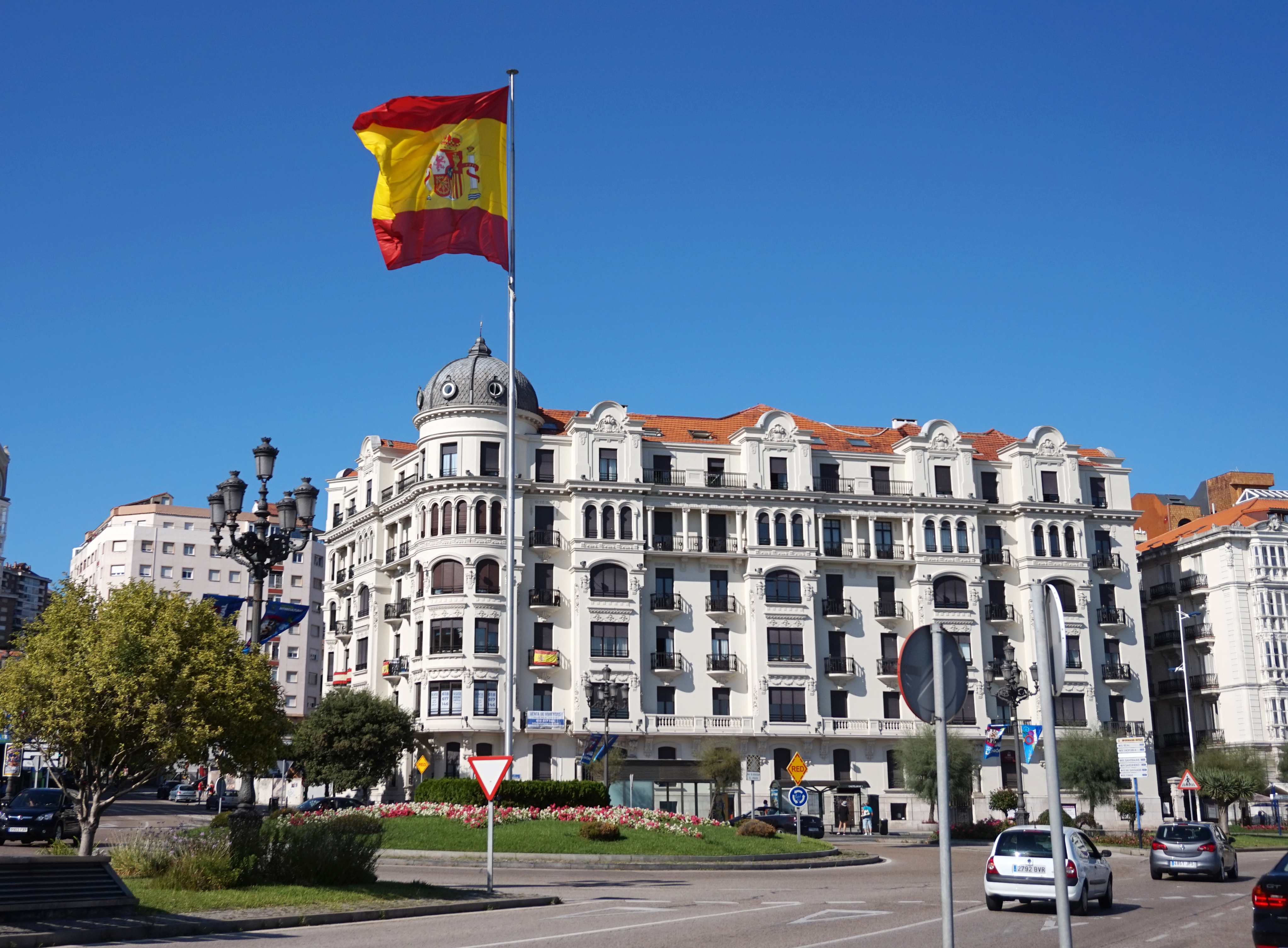 Life Bank and Spanish flag in Santander, Spain.This photograph was taken with a Sony ILCE-5000